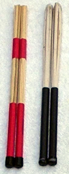 Drum Sticks, left to right: Vic Firth 7AN, Fibes 5B Heavy Rock, Zildjian Absolute Rock, Premier KP3, Livingstone 19 cane rutes, Vater AcouStick 7 cane nylon sheathed rutes, LP nylon brushes, Livingstone steel brushes, cartwheel mallets